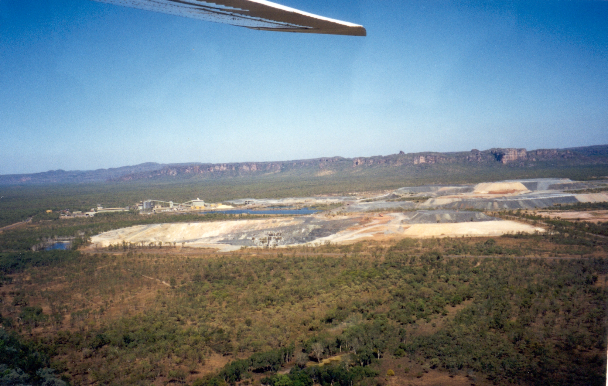 Aerial view of the Ranger Uranium Mine, a controversial Uranium mining operation in Kakadu National Parken